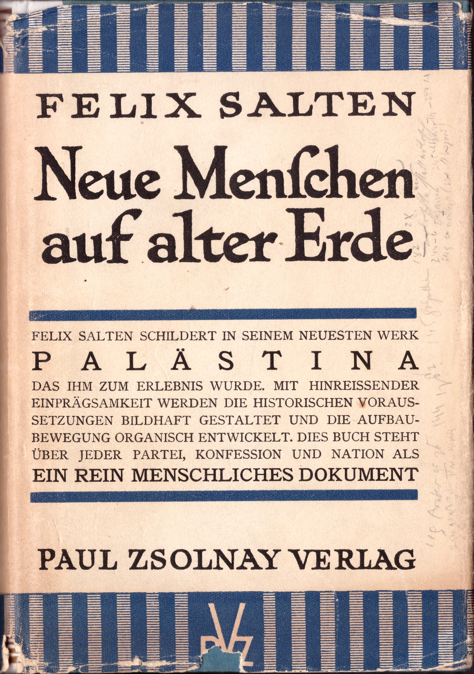 Cover (dustjacket) of Felix Salten’s book Neue Menschen auf alter Erde.